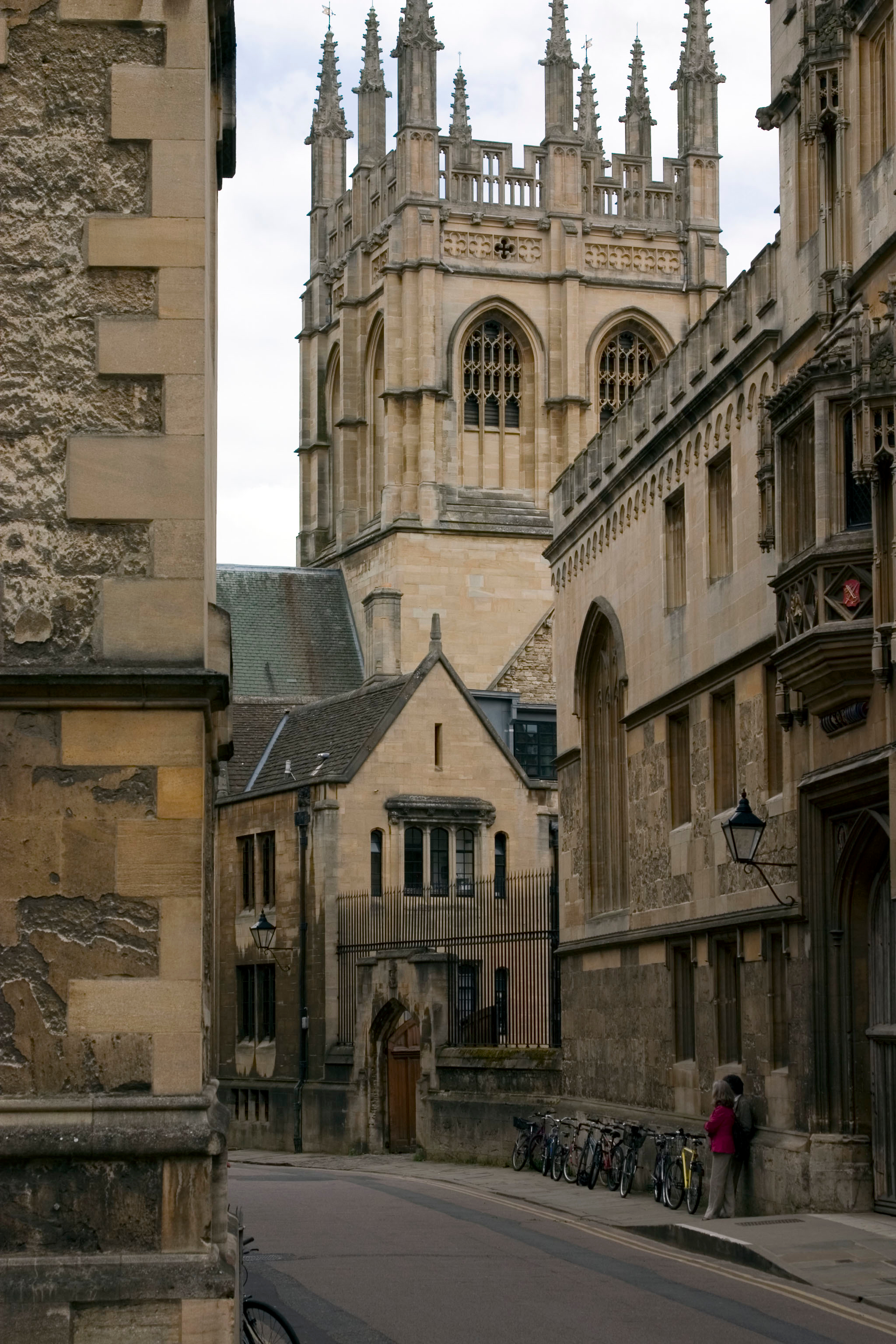 15th-century tower of the chapel of Merton College, Oxford